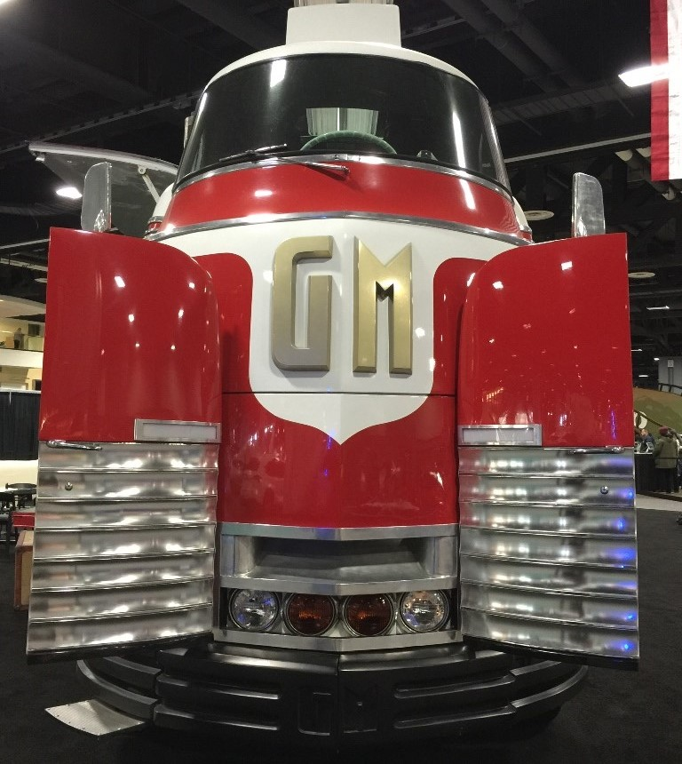 GM Futureliner